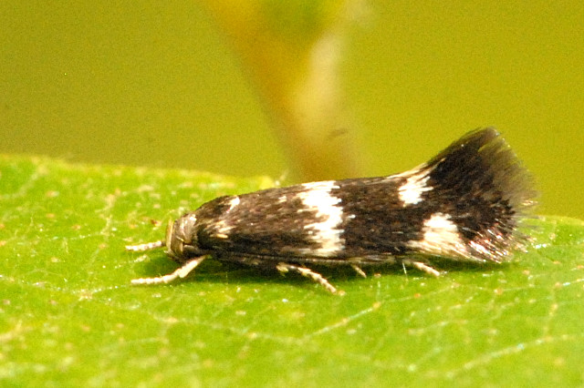 Incurvaria praelatella from Commanster, Belgian High Ardennes .